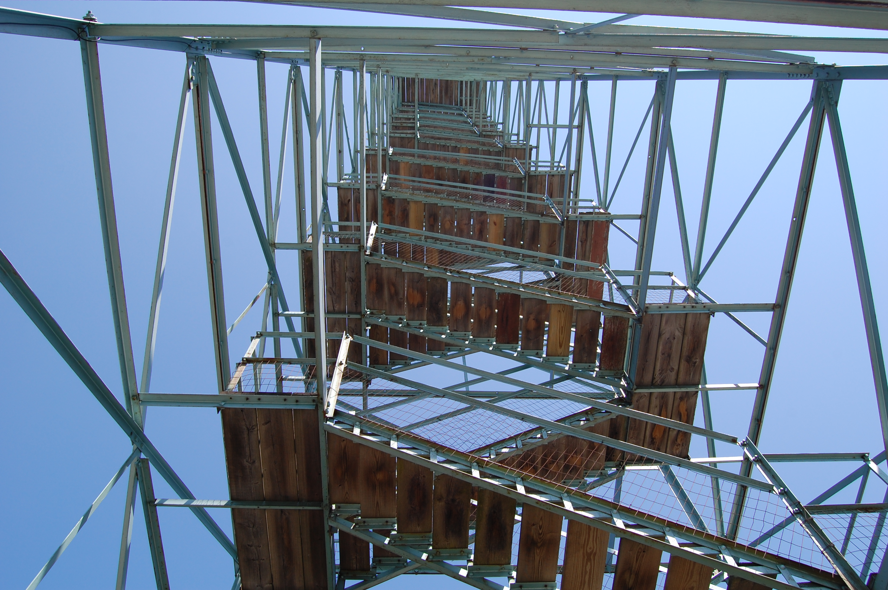 A view of the inside stairs of Big Walker Lookout tower on June 18, 2008.